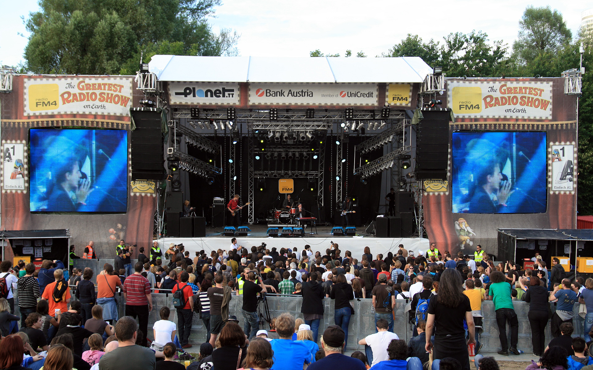 Concert of Austrian band Kreisky at the Donauinselfest in Vienna